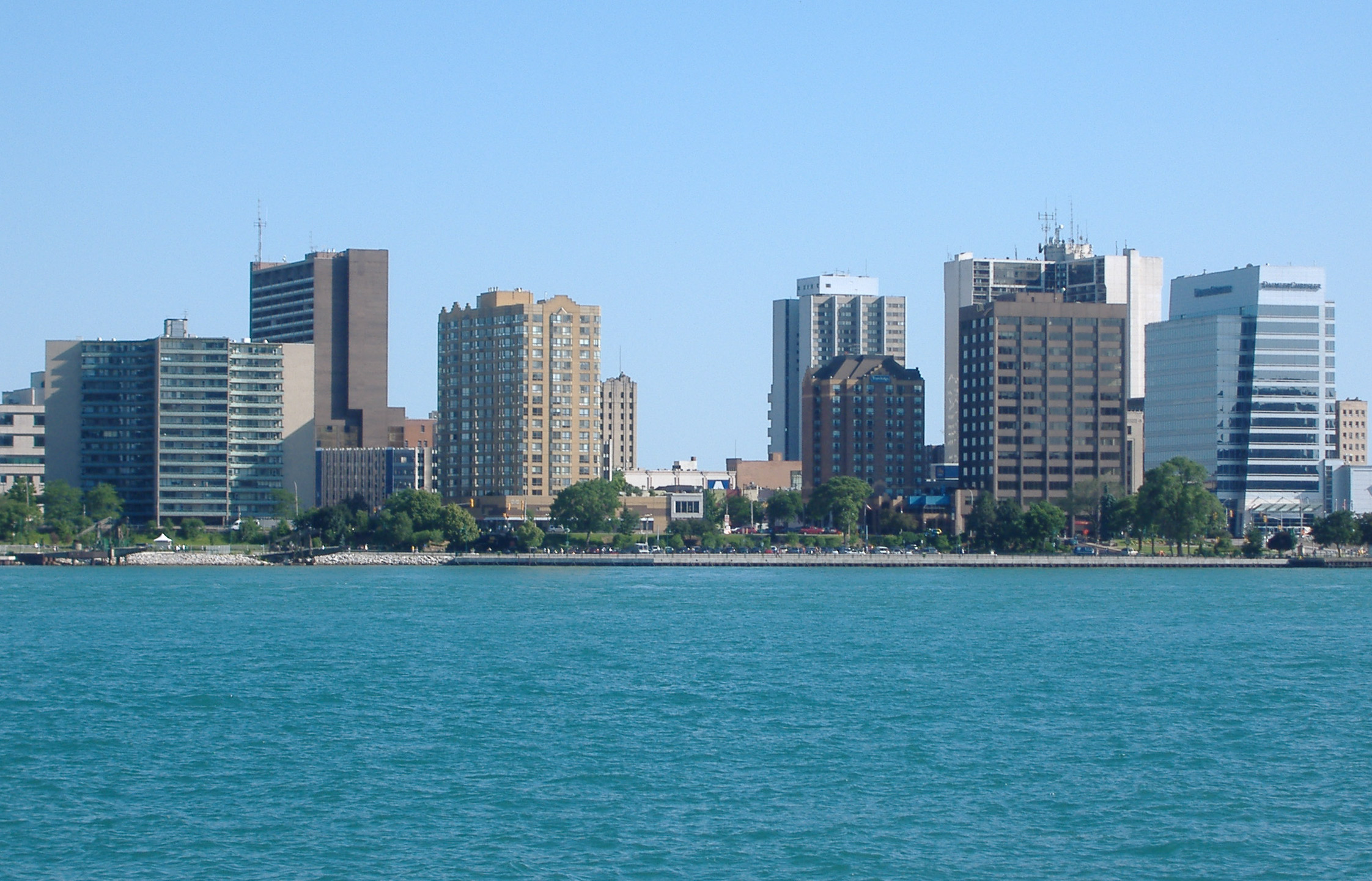 City of Windsor from Detroit.